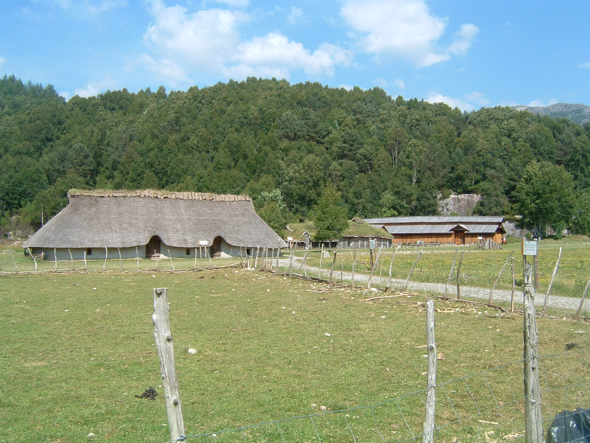 The reconstruted village Landa. Picture taken by Hallvard Nygård 30. june 2006.